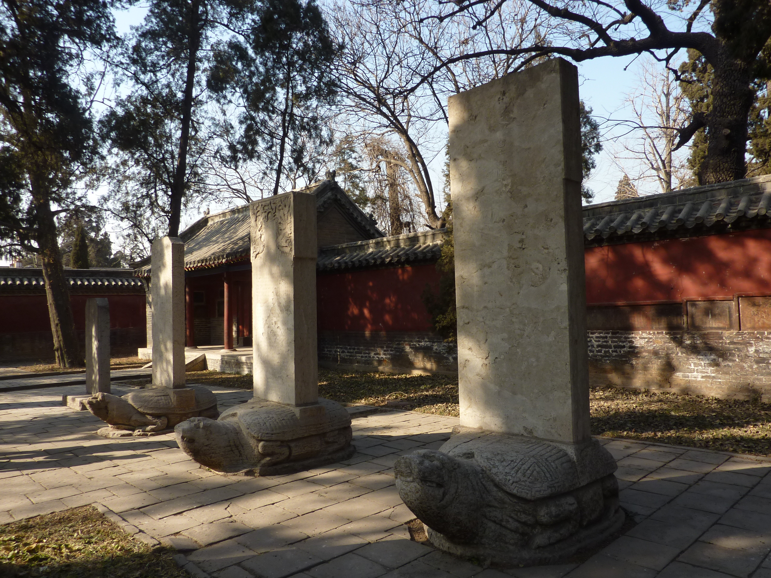 Three stelae, carrried by bixi tortoises, in the Temple of Mencius (Meng Miao). The inscriptions on all tablets data from the Qing Dynasty. From the left to right, they appear to date from Qianlong 15, Xuantong 3 (that is, the very last year of the Qing!), and Qianlong 31 or 36